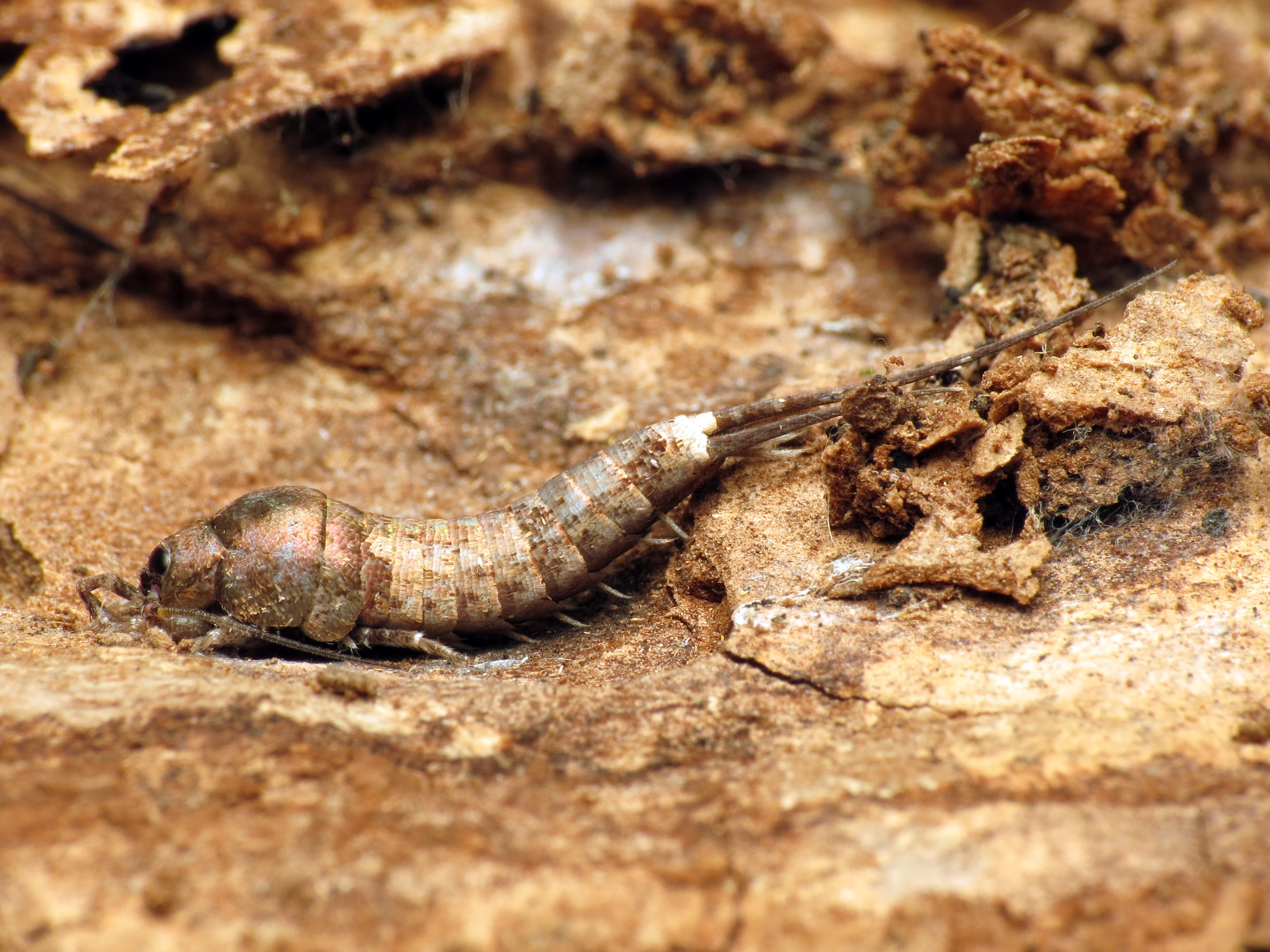 Rock Creek Park, Washington, DC, USA.